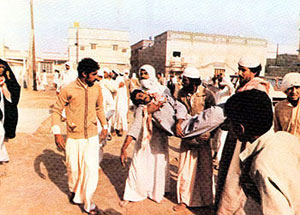 Demonstrators carrying the body of a fellow protester killed in clashes with security forces during the November 1979 unrest in Eastern Province, Saudi Arabia.